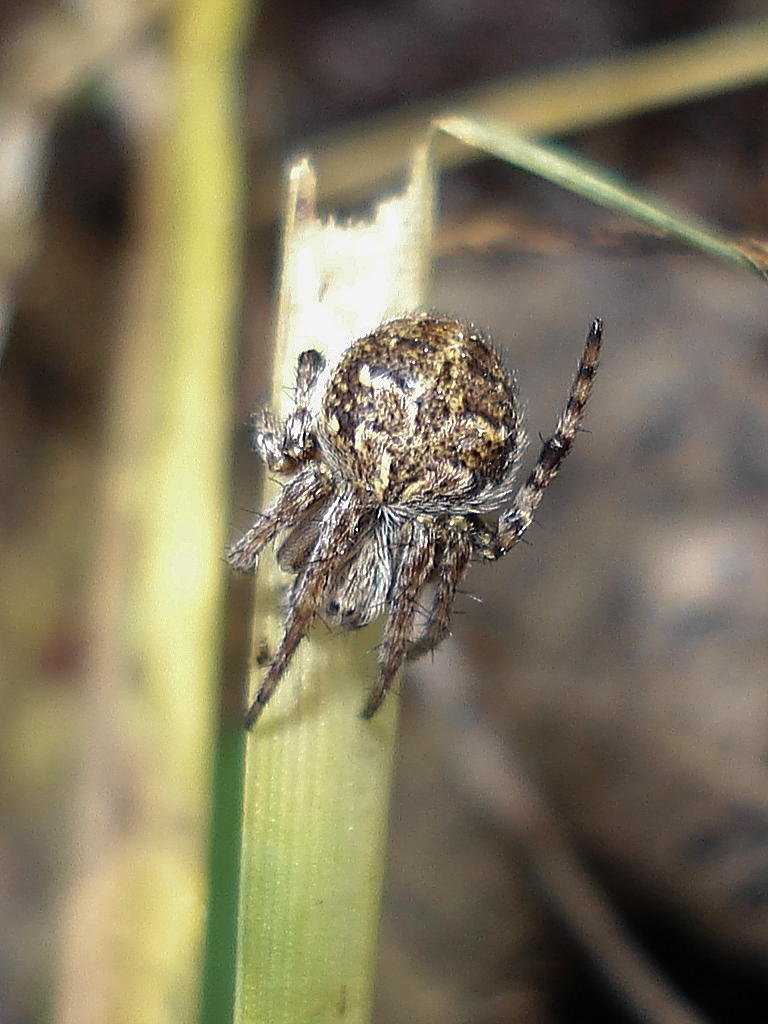 Agalenatea redii